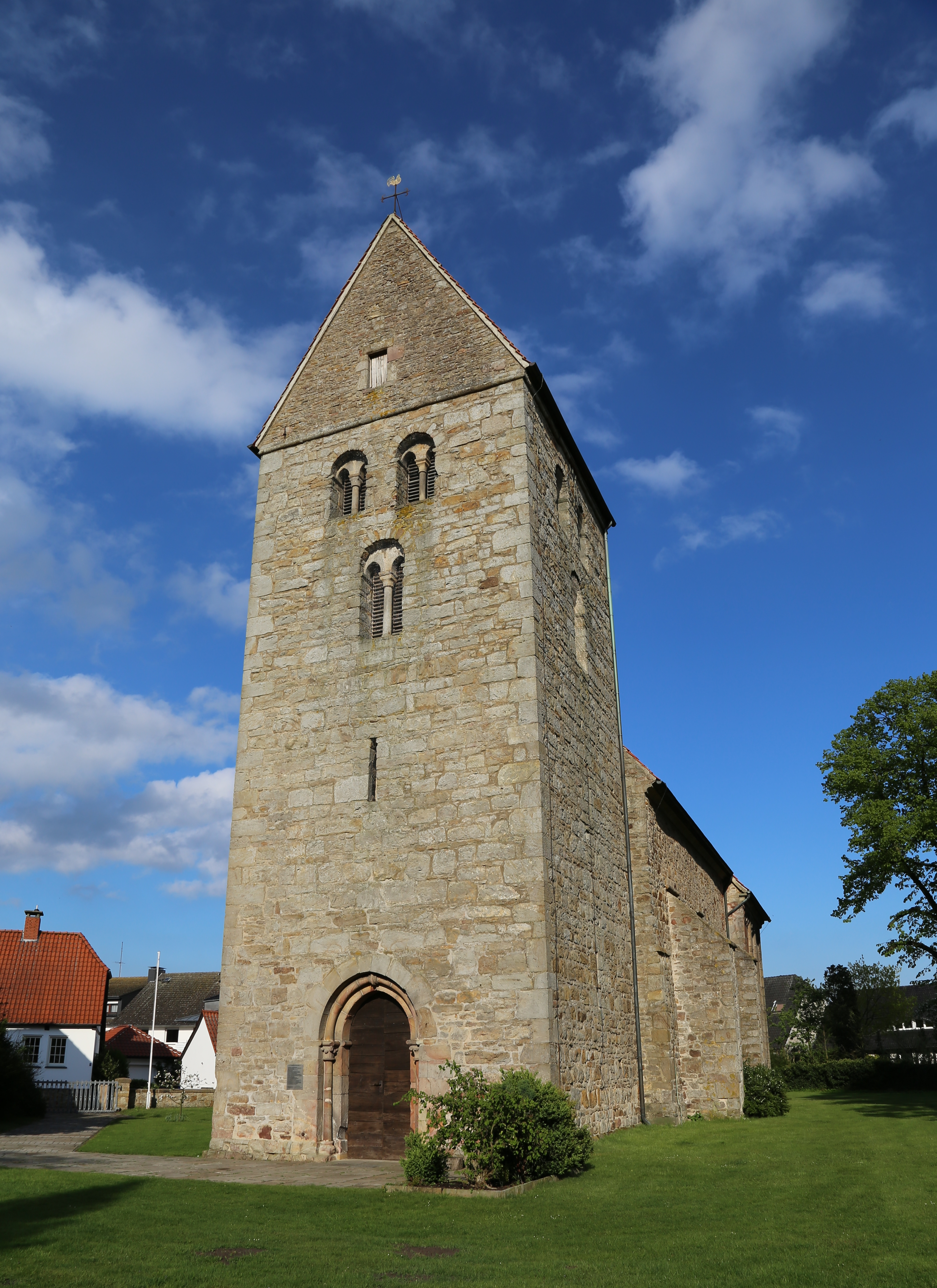 Protestant Church in Recke, Kreis Steinfurt, North Rhine-Westphalia, Germany.